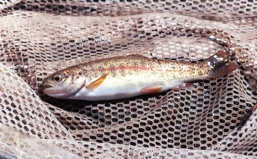 Redband Trout (Oncorhynchus mykiss) in Boise National Forest, Idaho